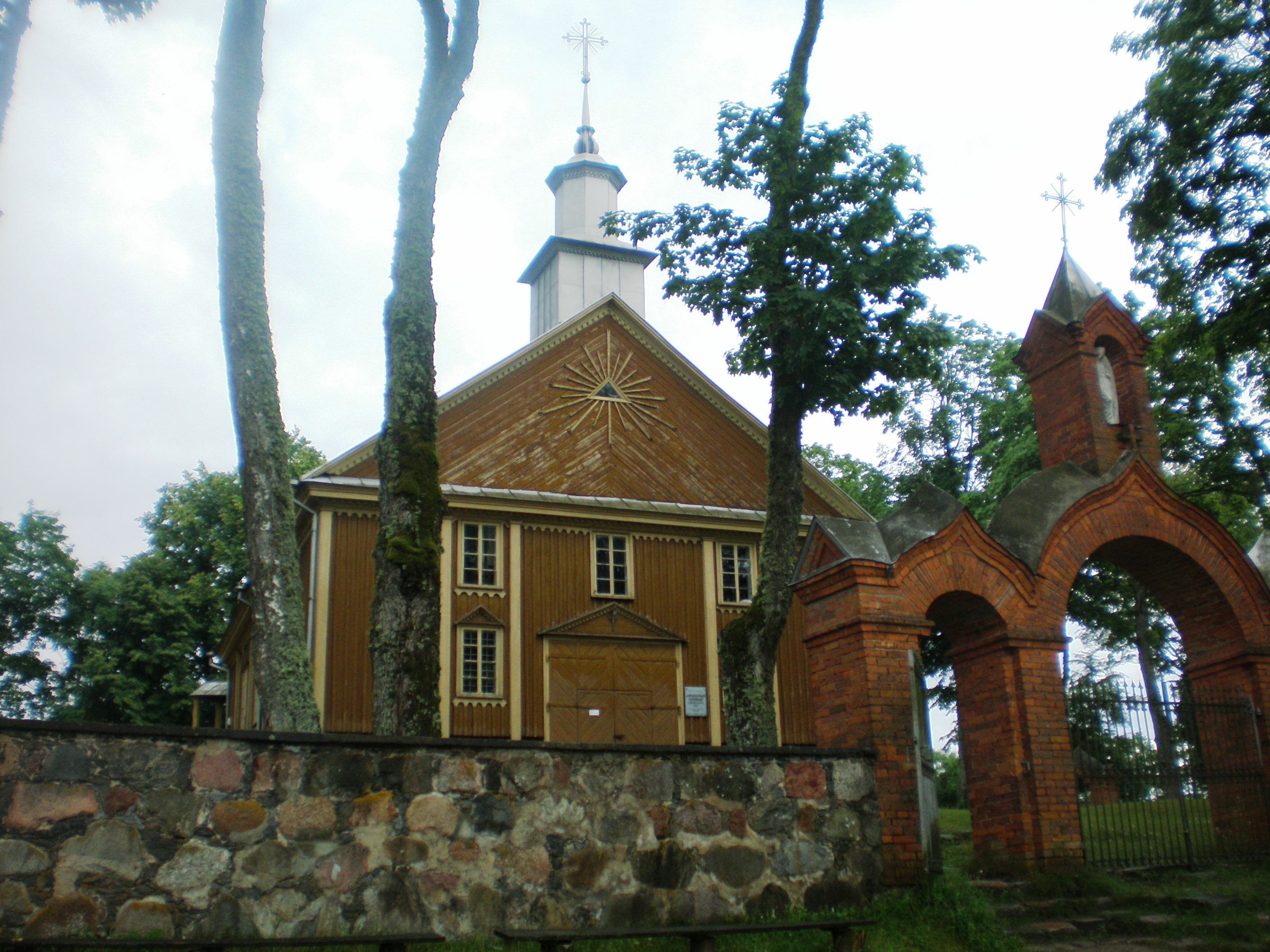 Church of Labanoras, Lithuania